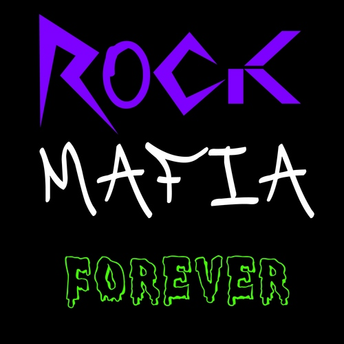 logo